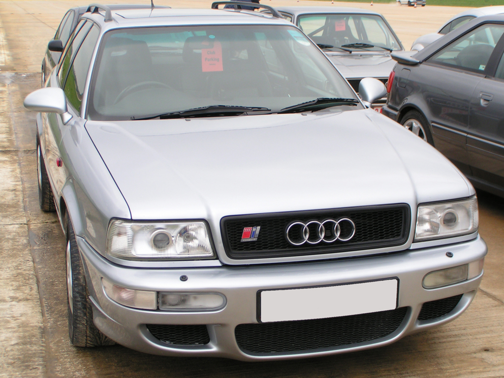 Audi RS2 Avant. Picture Taken by me at GTI International 2004, UK